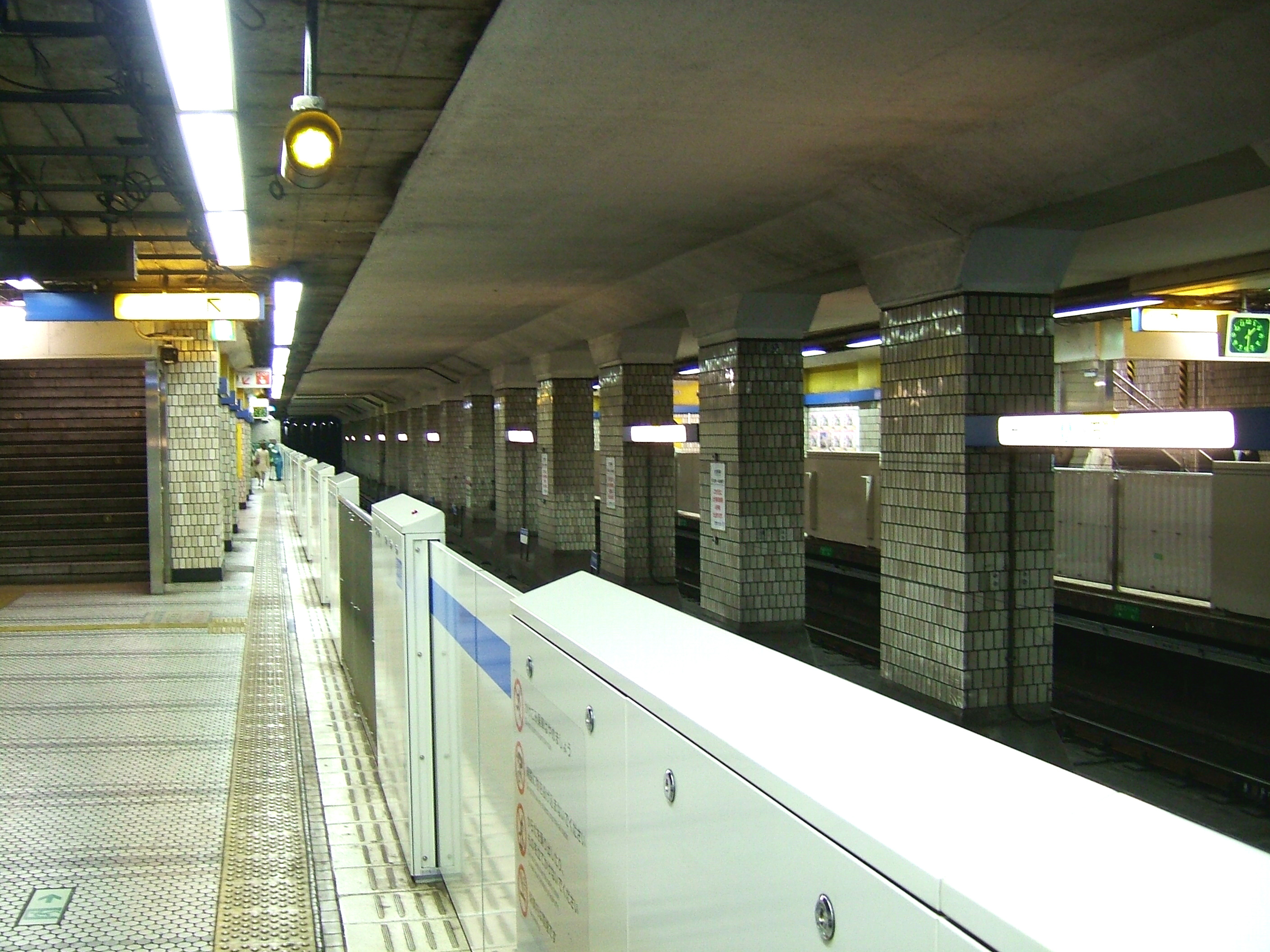 Maita Station platform (Yokohama Municipal Subway Blue Line)